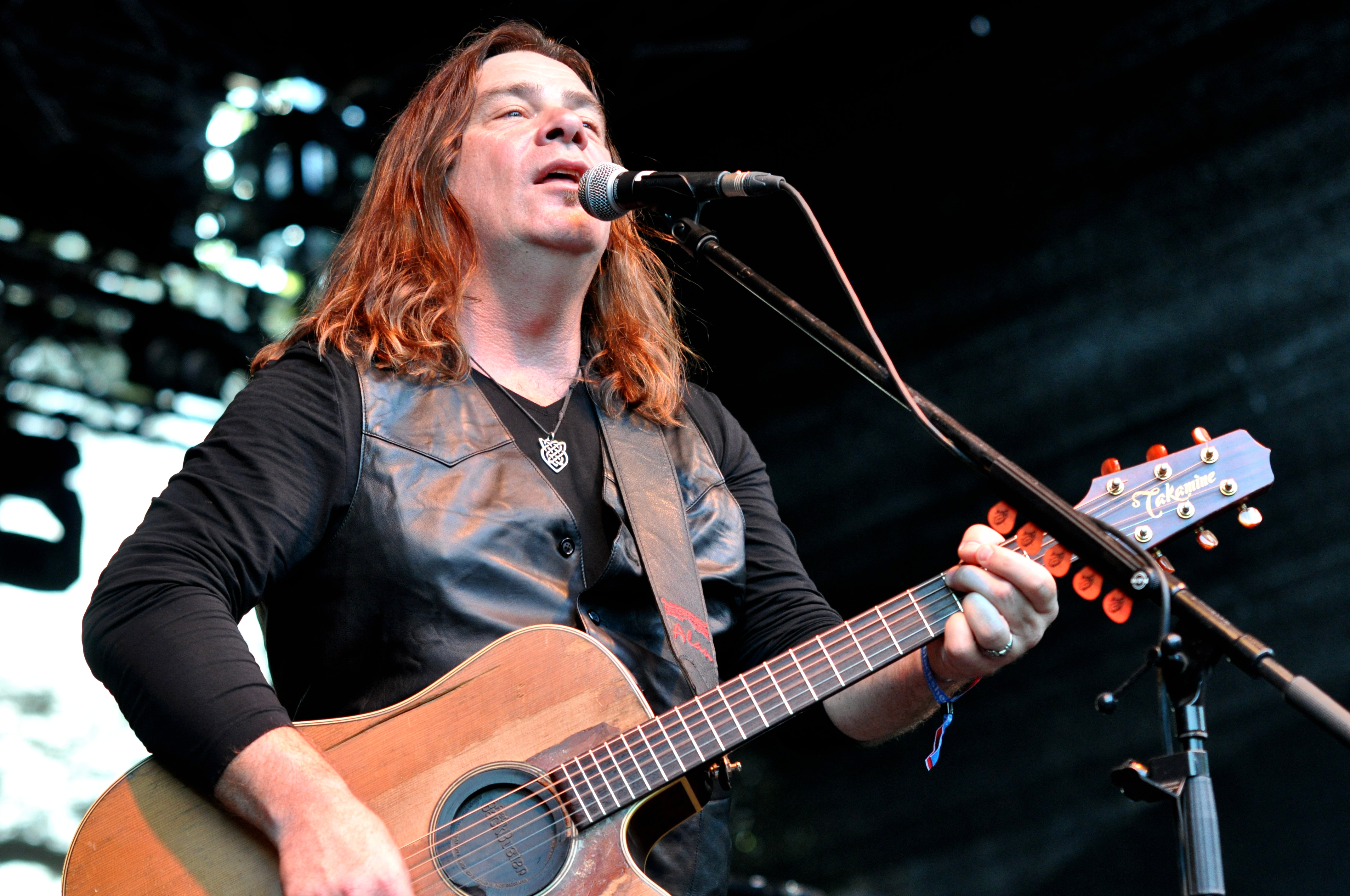 Alan Doyle and band (CAN) appearance at the 2017 blacksheep festival at Bonfeld castle, Bad Rappenau, Baden-Wuerttemberg, Germany Festivalsommer This photo was created with the support of donations to Wikimedia Deutschland in the context of the CPB project "Festival Summer".